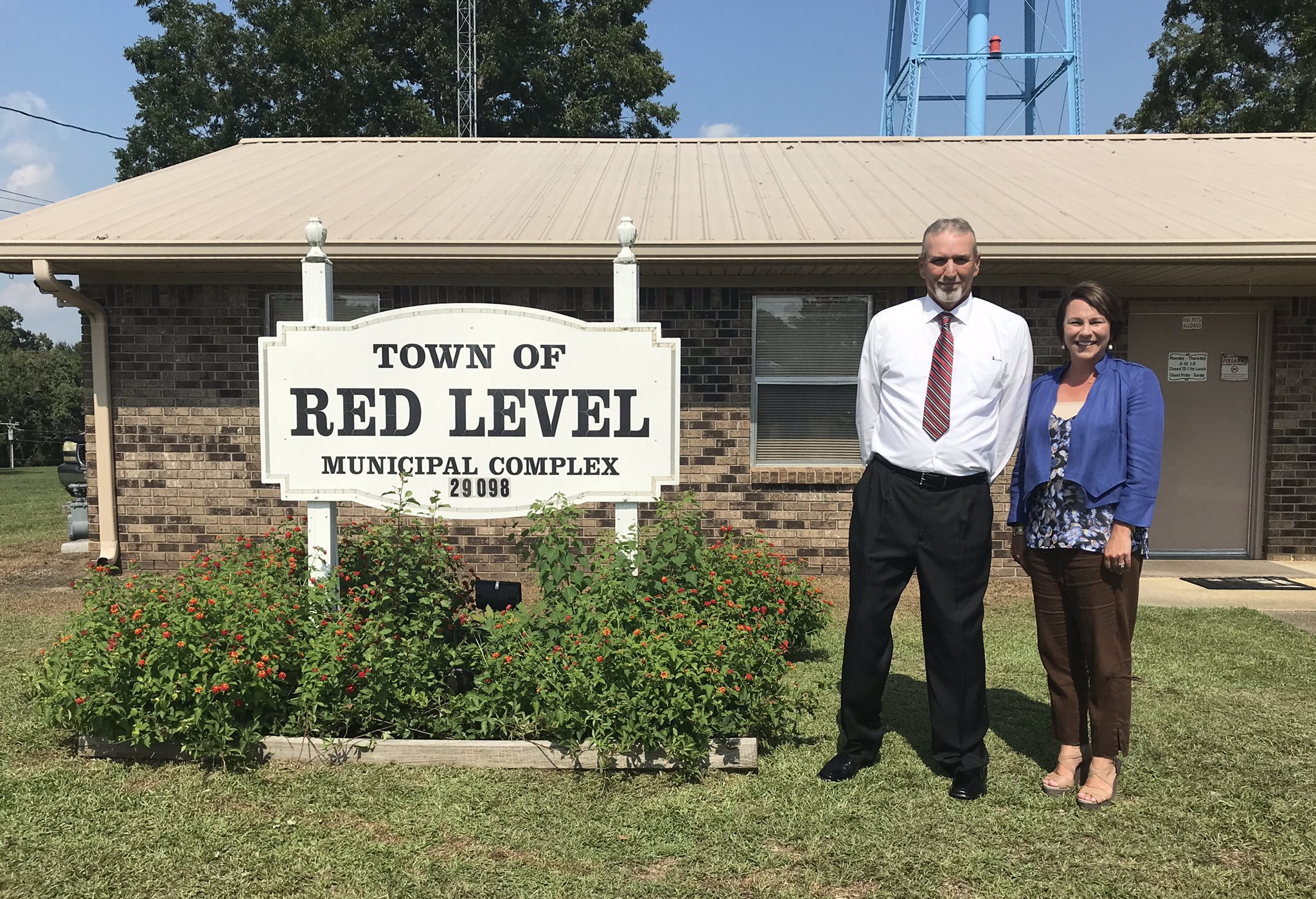 Yesterday I stopped by the Red Level municipal complex where I visited w/ Mayor Willie Hendrix, Sandy Williamson, & Tonya Cook. We discussed some of the ways my office can be helpful as we work to assist our shared constituency. Thanks for your time and leadership!